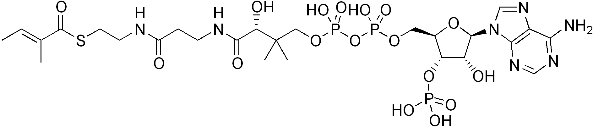 chemical structure of tiglyl-CoA